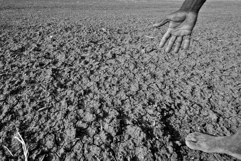 A photograph of a farmer showing his affected plot due to drought in Karnataka, India, 2012.